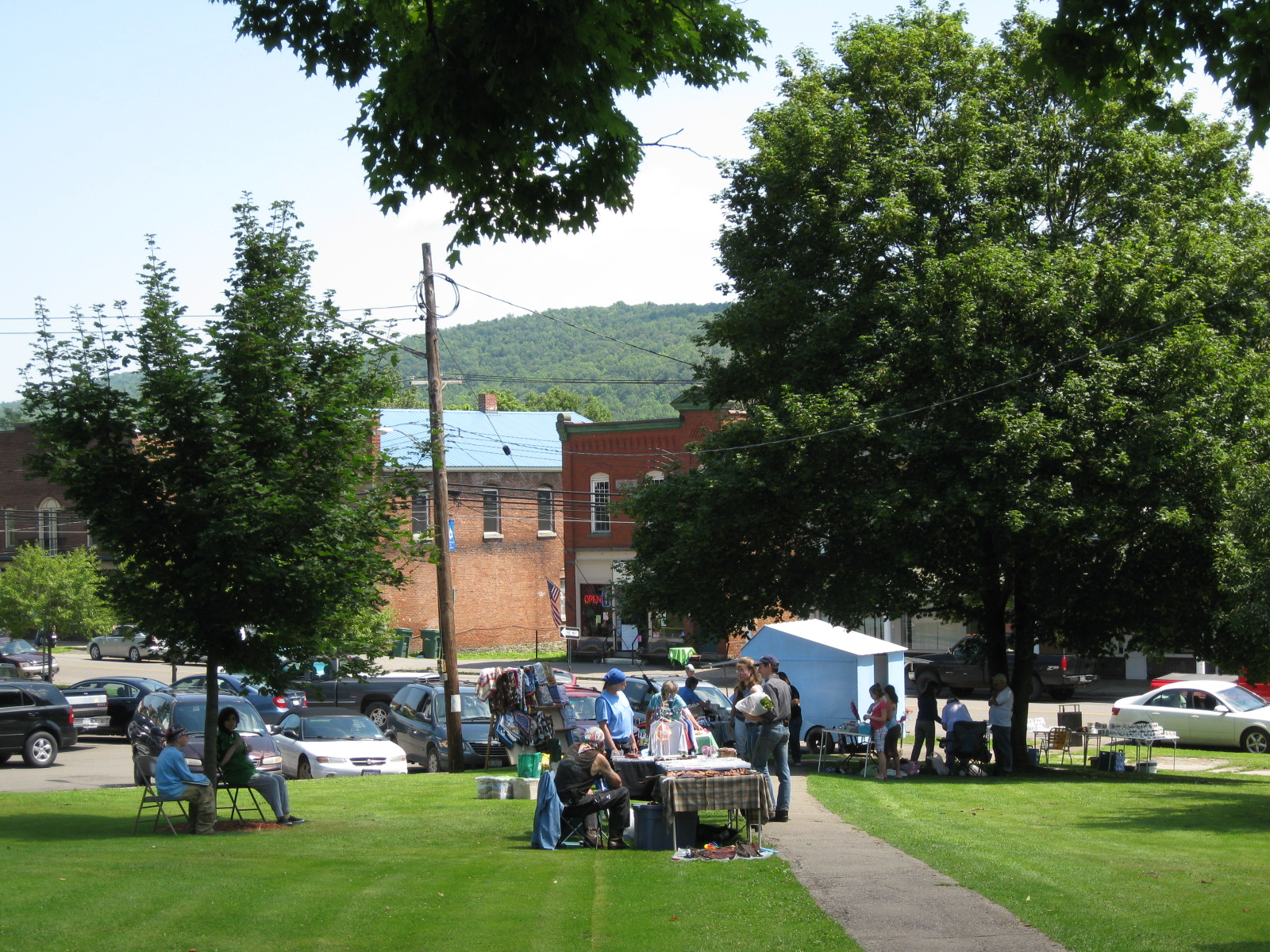 Village Green, one of the contributing properties of the Windsor Village Historic District, Windsor, New York.